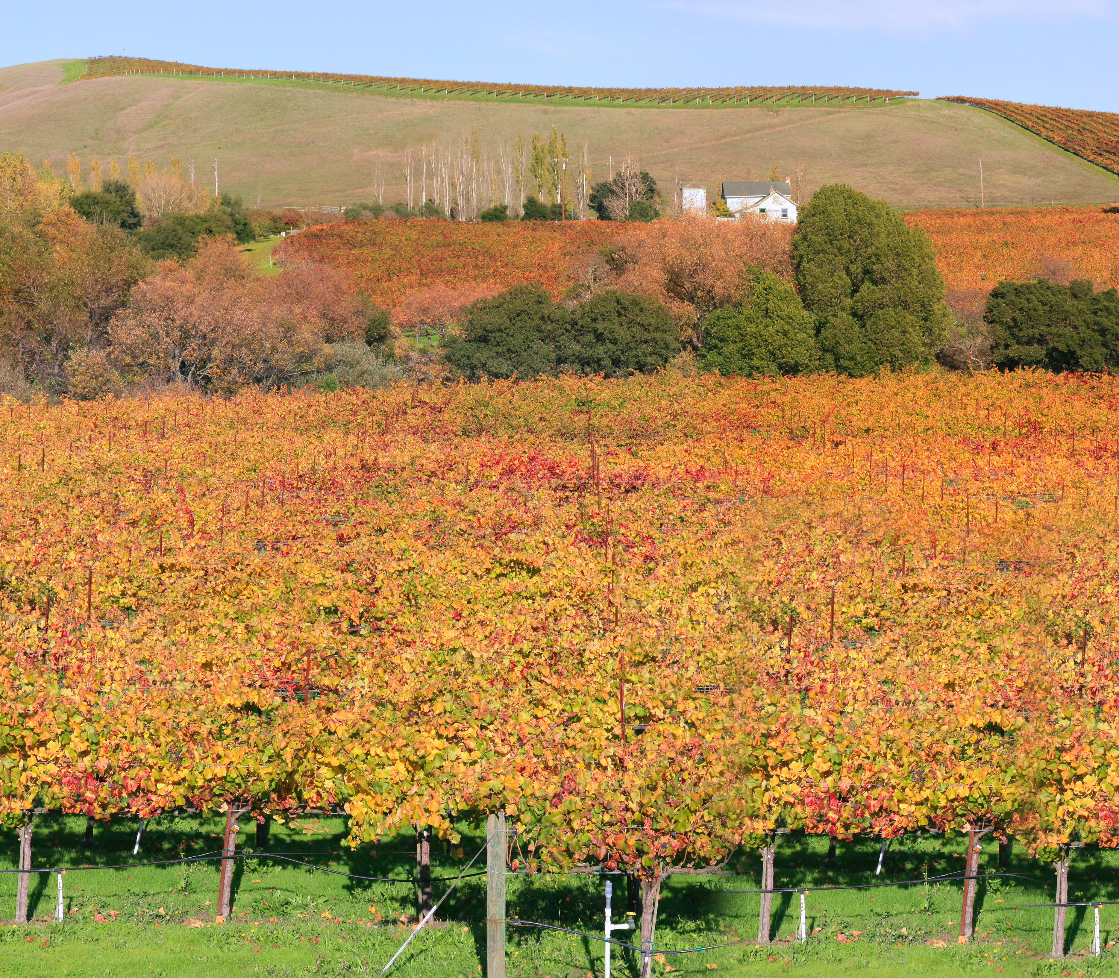 Napa valley vineyard and winery